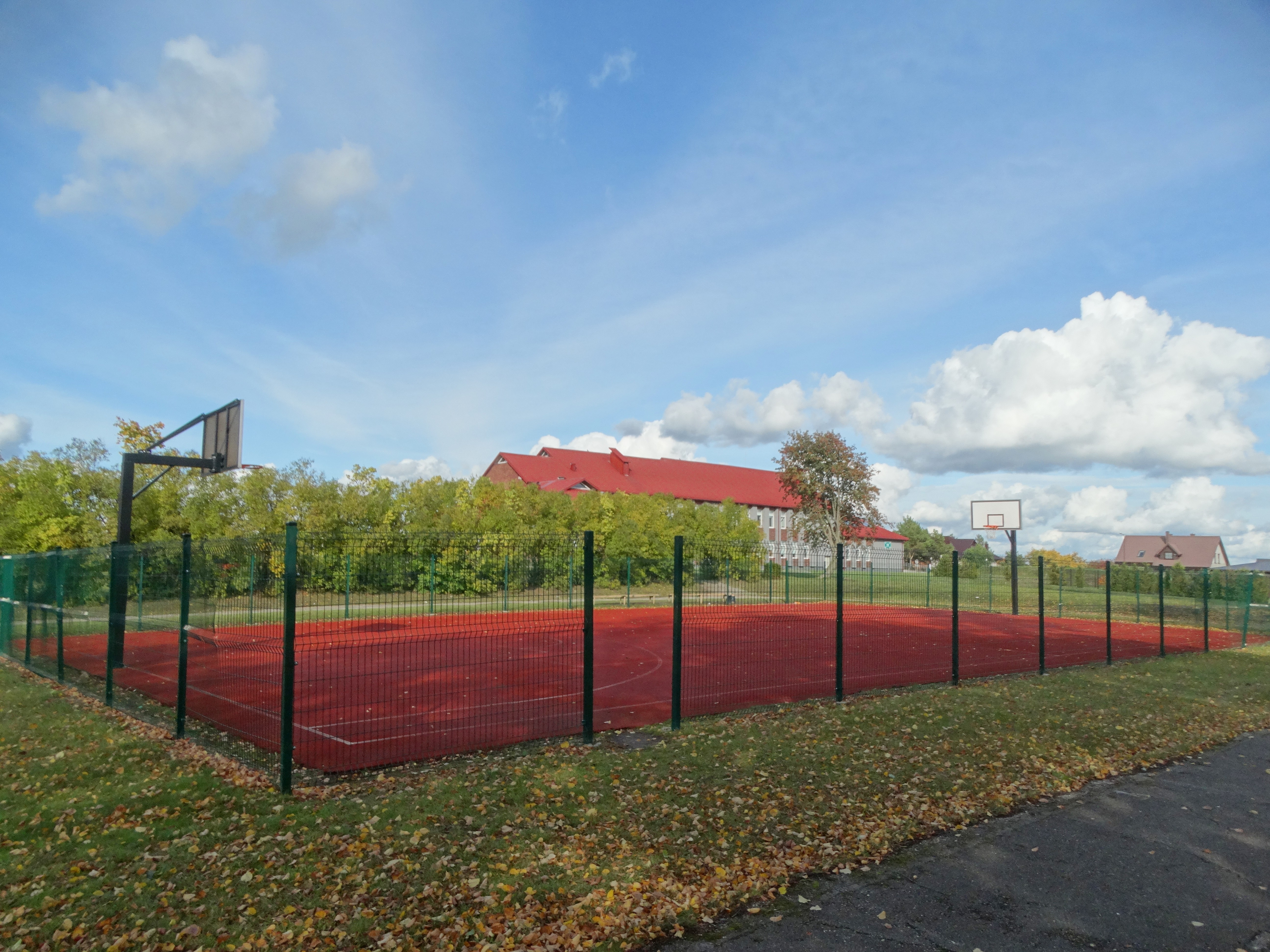 School stadium, Piliuona, Kaunas District, Lithuania